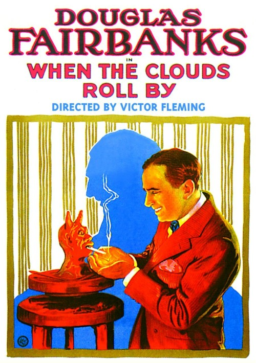 Poster for the American film When the Clouds Roll by (1919).